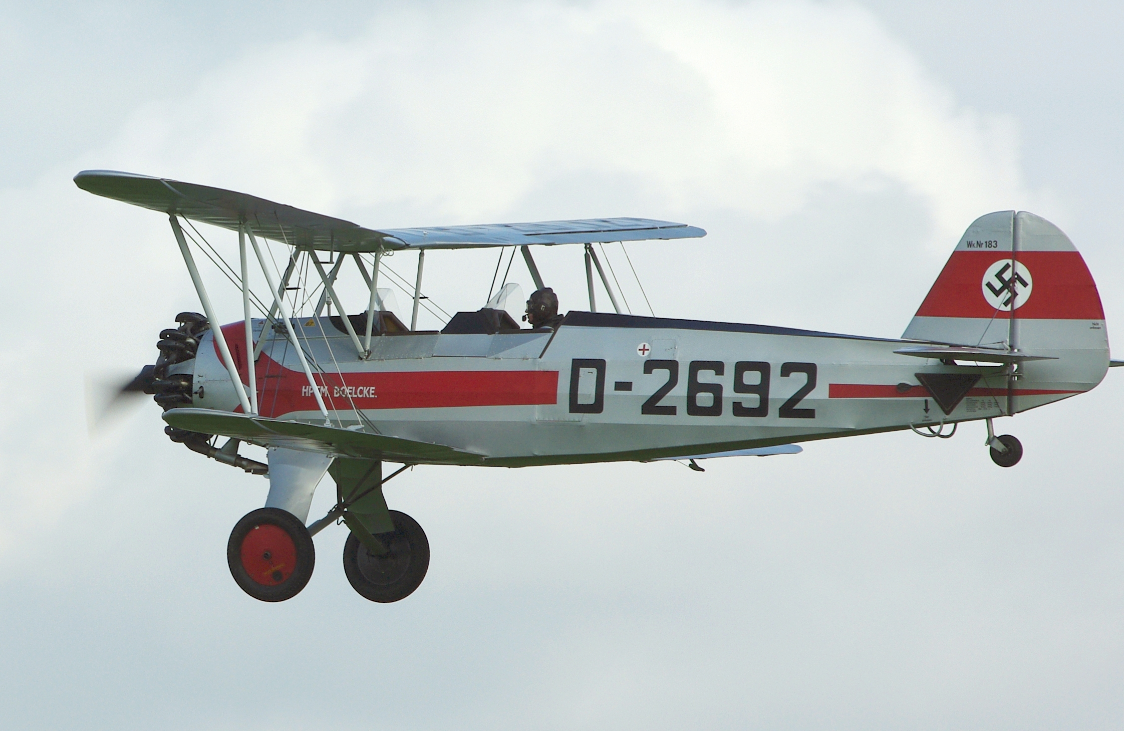 Focke-Wulf FW44J Stieglitz (Goldfinch) G-STIG at Old Warden 7 September 2008.